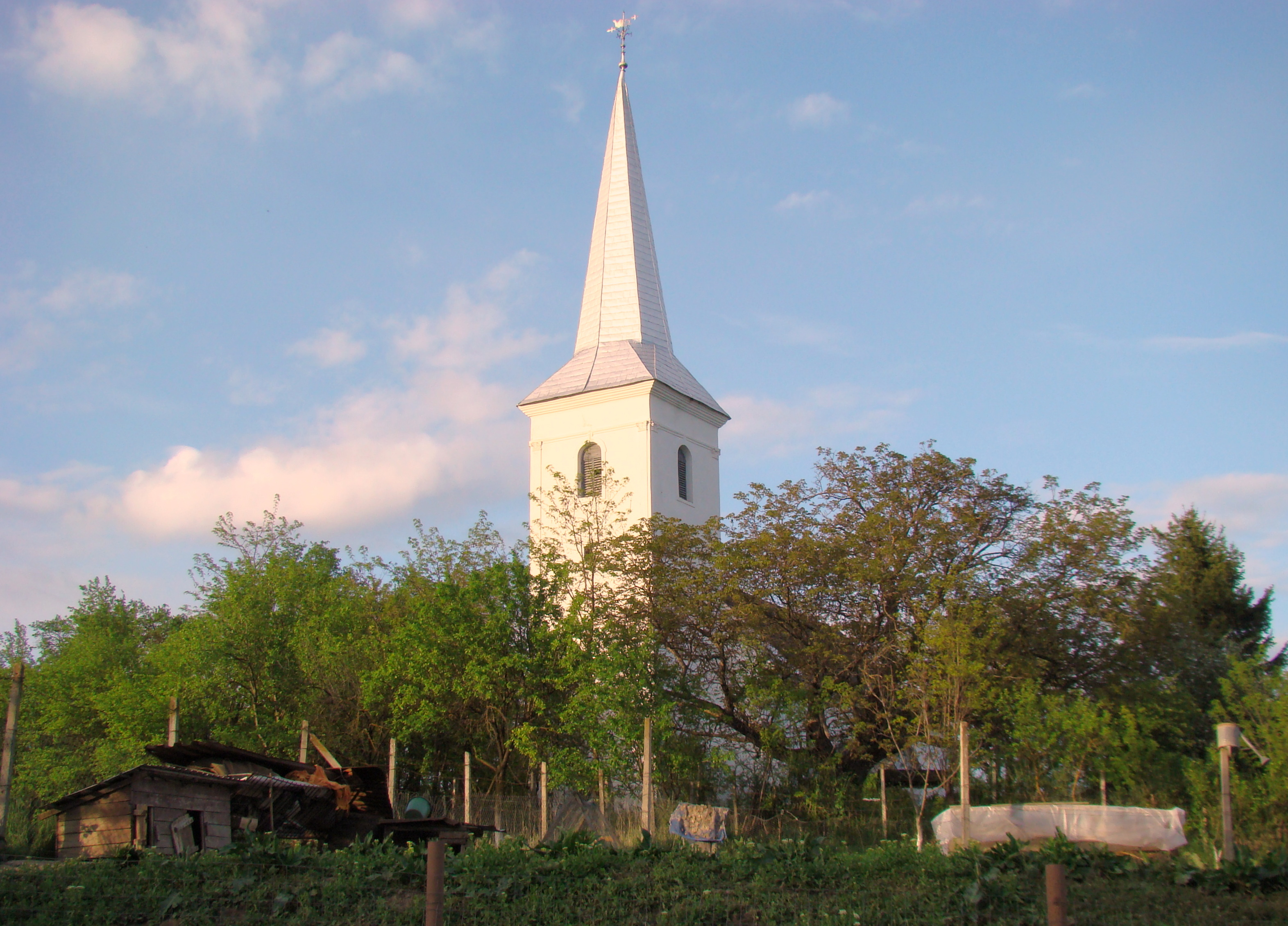 Reformed church in Feldioara, Cluj county, Romania